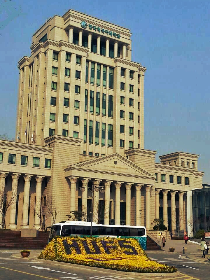 Administration building, Hankuk University of Foreign Studies, Seoul, Korea